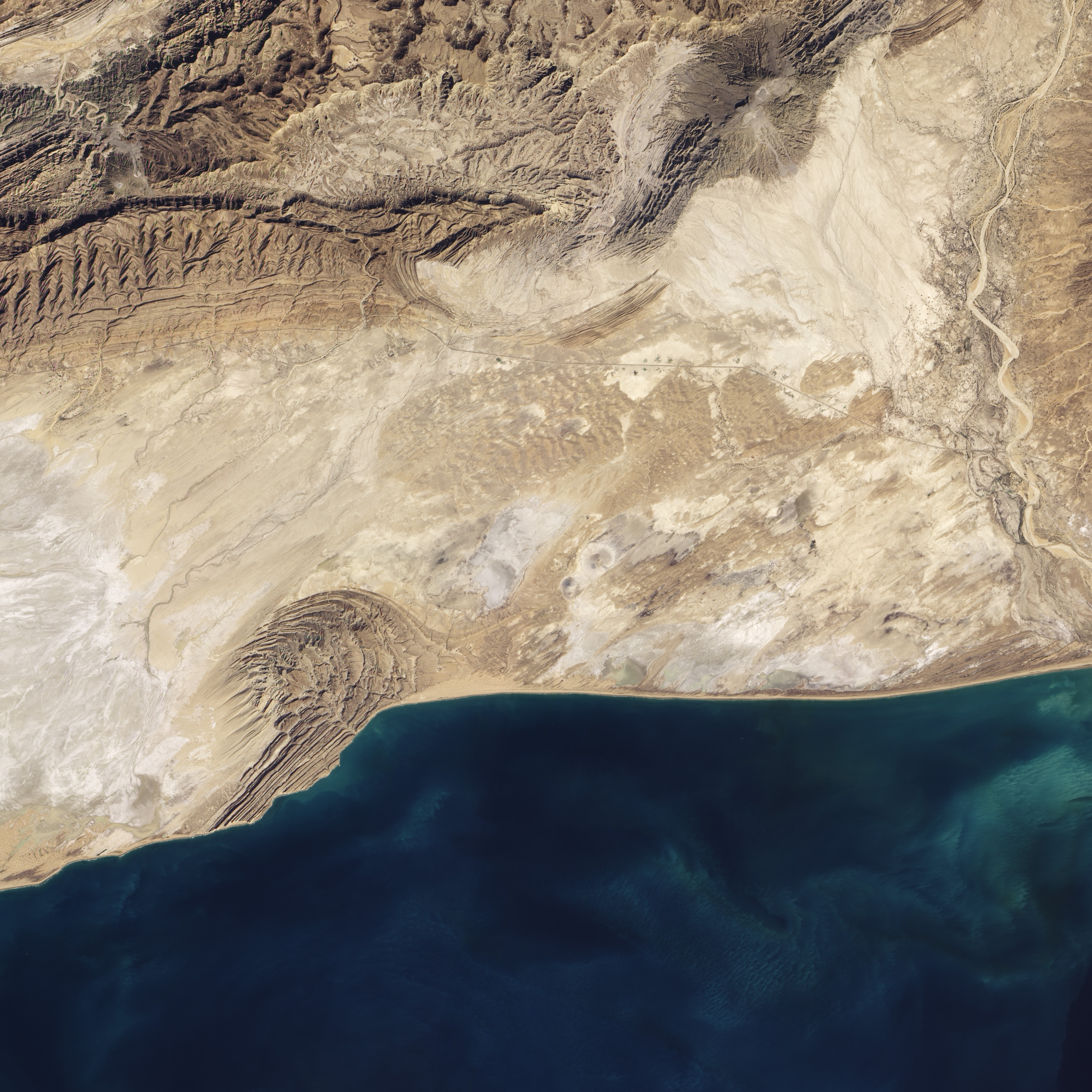 This natural-colour image shows the most dramatic group of mud volcanoes in the area, known as the Changradup Complex, Pakistan. The tallest mud volcano, Changradup I, is about 100 meters high, and it has a 15-meter diameter mud lake in its crater that periodically overflows. Some of these overflows have darkened the north-western flanks. A second crater emerges from the southern flanks of Changradup, but it is not currently active. The 45-meter Chandragup II lies north-east of the taller cone, and its crater is filled by a mud lake with a figure-8 shape, probably the result of twin volcanoes whose craters collapsed into each other over time. To the north-west of Changradup I, the eroded rim of an extinct mud volcano is visible; its eastern rim is more noticeable than its western rim.